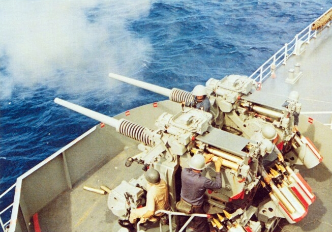 View of the twin 3in/50 (7.6 cm) Mk 33 twin mount during gunnery practice aboard the U.S. Navy landing dock ship USS Austin (LPD-4), in 1976.